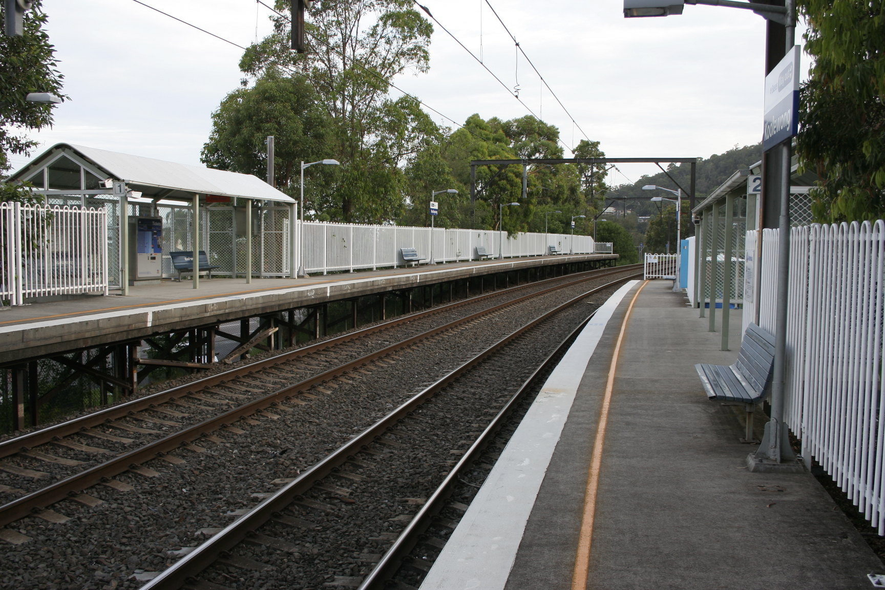 Koolewong railway station